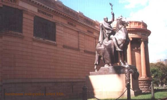 Statue at Art Gallery New South Wales in Sidney/Australia